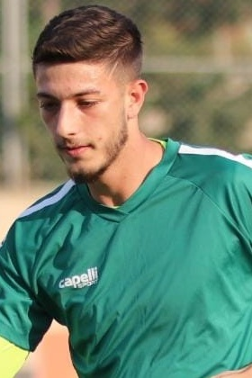 Ali Daher training for Lebanon in 2019